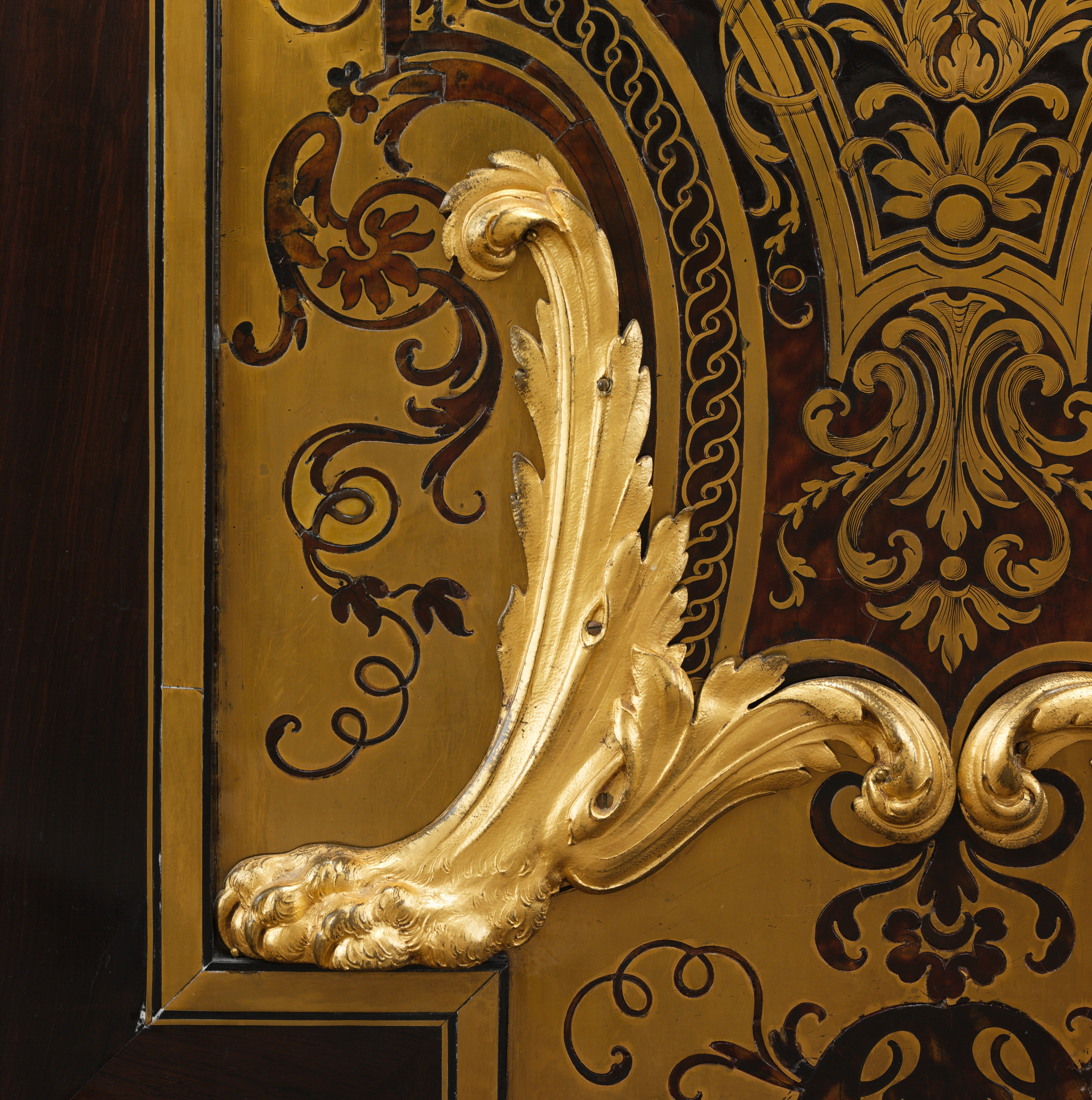 French, Paris; Cabinet; Woodwork-Furniture